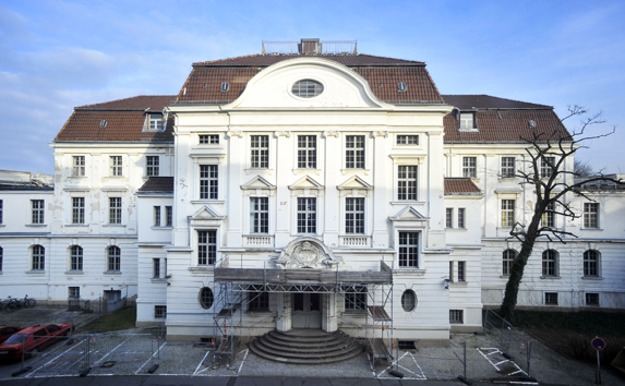 Work of Carl Cranz: Former Military Technical Academy in Berlin